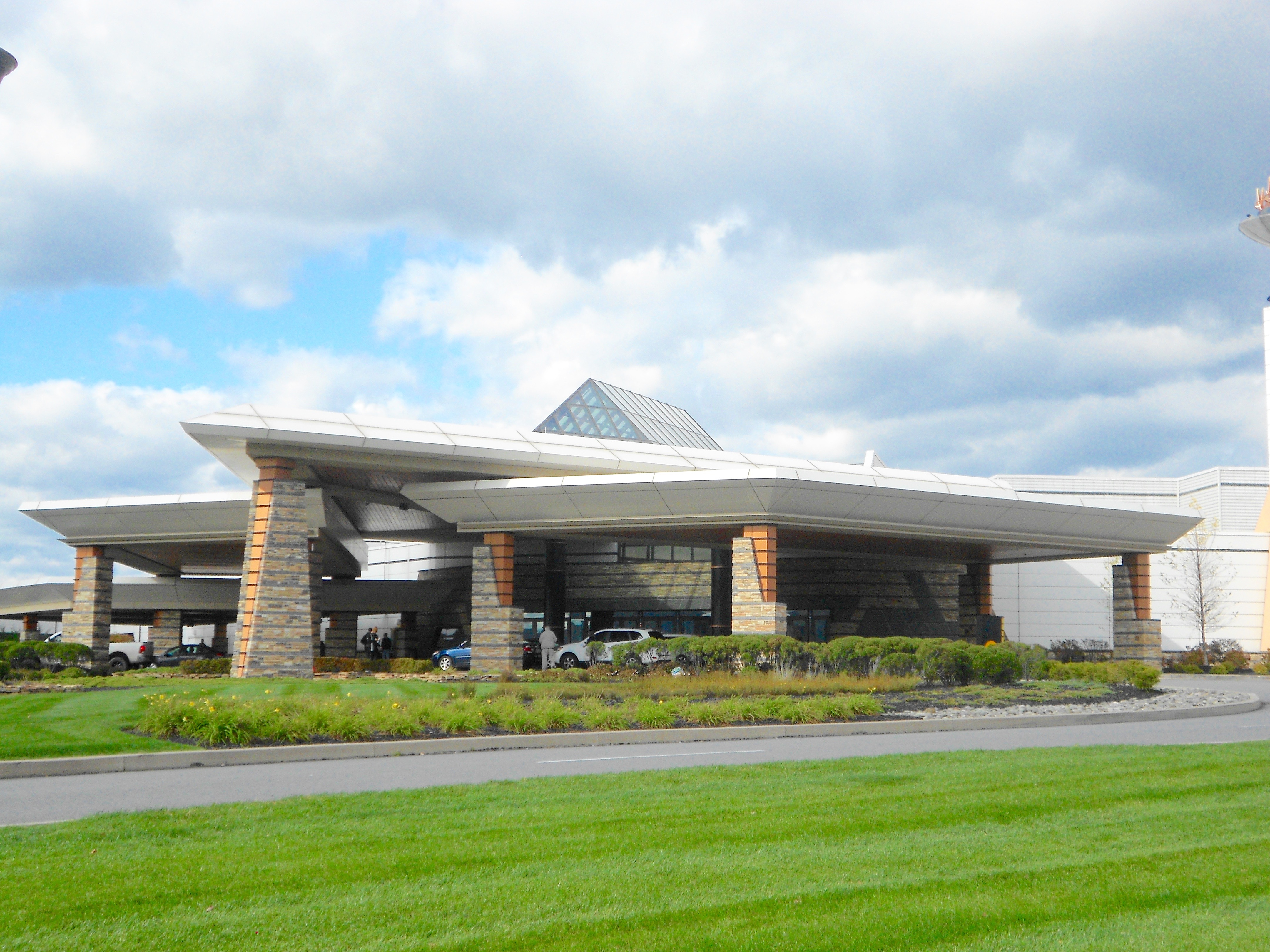 Mohegan Poconos casino in Plains Township, Luzerne County, Pennsylvania